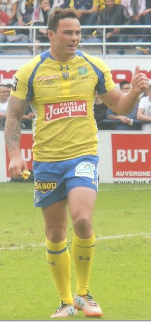 Clermont-Oyonnax